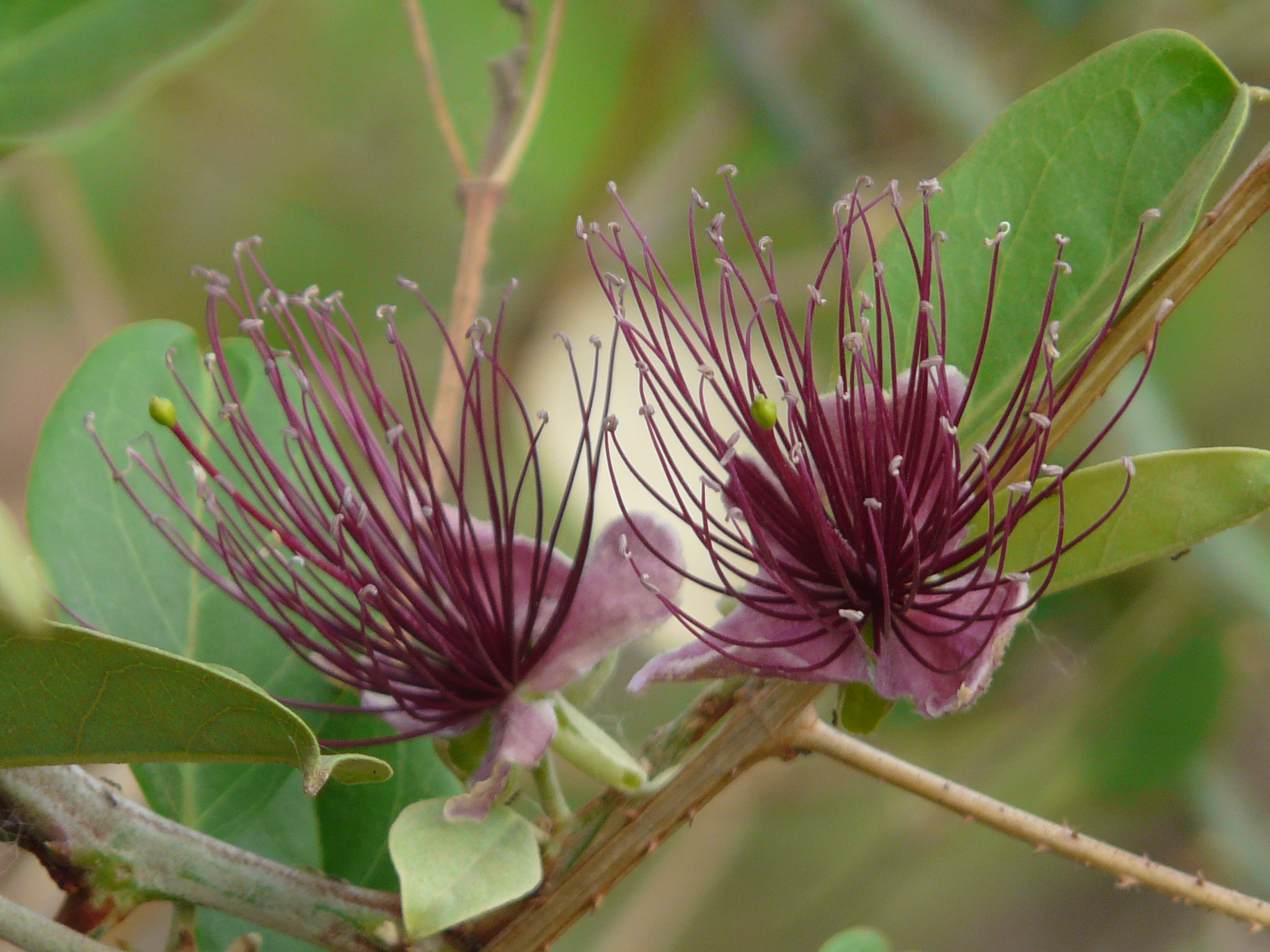 Capparaceae (caper family) » Capparis zeylanica KAP-ar-iss -- from the Greek kápparis, originating in the Near or Middle East zey-LAN-ee-kuh -- of or from Ceylon (Sri Lanka) commonly known as: Ceylon caper • Bengali: kalokera • Gujarati: ગોવિંદકળ govindakal, kakhbilado, karrallura • Hindi: ardanda, jhiris • Kannada: ಮುಳ್ಳುಕತ್ತರಿ mullukattari, totulla • Konkani: वाघांटी vaghamti • Malayalam: karthotti • Marathi: गोविंदी govindi, कडूवाघांटी kaduvaghanti, वाघांटी vaghanti • Nepalese: ban kera • Punjabi: ਗਰਨਾ garna, ਕਰਵੀਲਾ karwila, ਕਰਵੀਲੂੰ karwilun • Rajasthani: gitoranj • Sanskrit: करम्भ karambha, तपसप्रिय tapasapriya, व्याघ्रनखी vyaghra nakhi • Tamil: ஆதொண்டை atontai, காற்றோட்டி karrotti • Telugu: ఆరుదొండ arudonda Native to: China, Indian sub-continent, Indochina References: Flowers of India • NPGS / GRIN • M.M.P.N.D. • eFlora